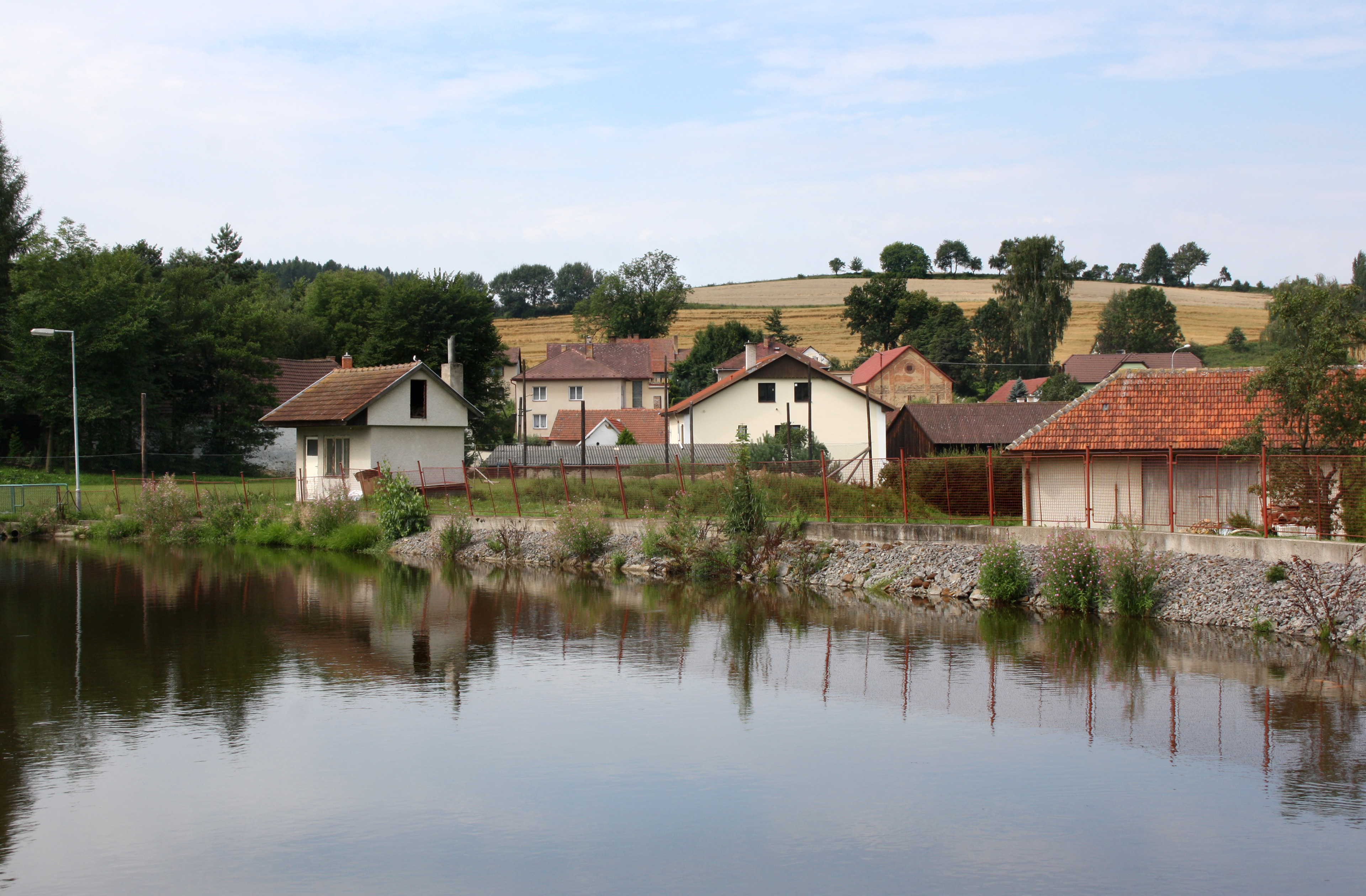 Common pond in Olešná village, Czech Republic